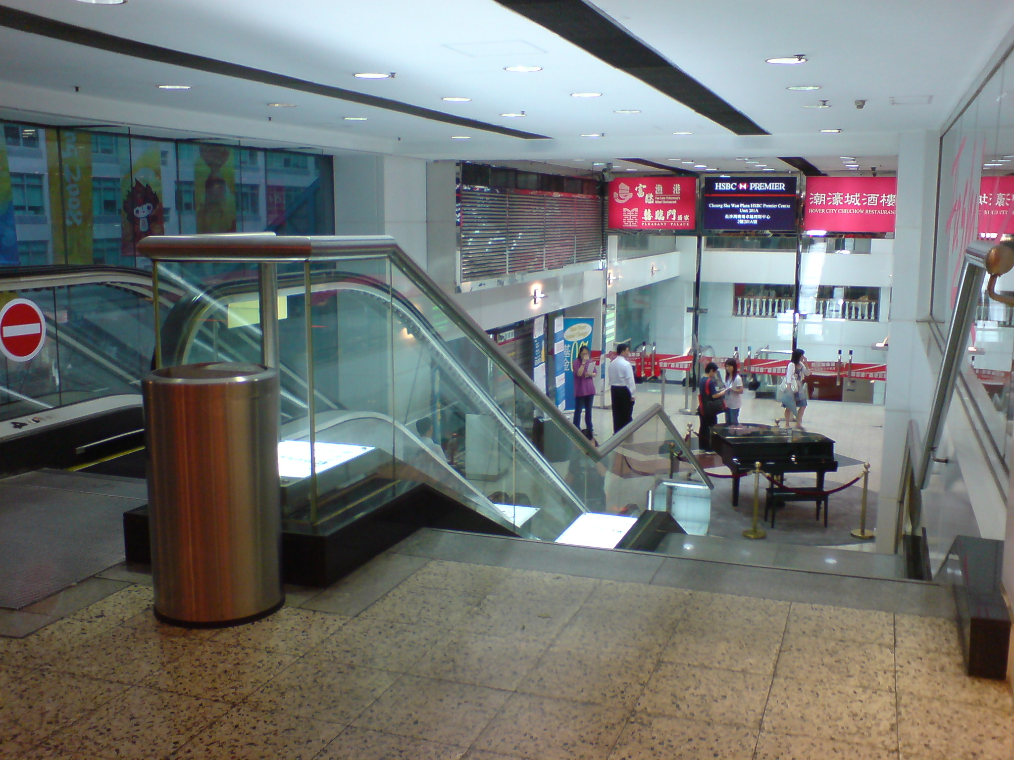 Cheung Sha Wan Plaza (Shopping Area) Atrium